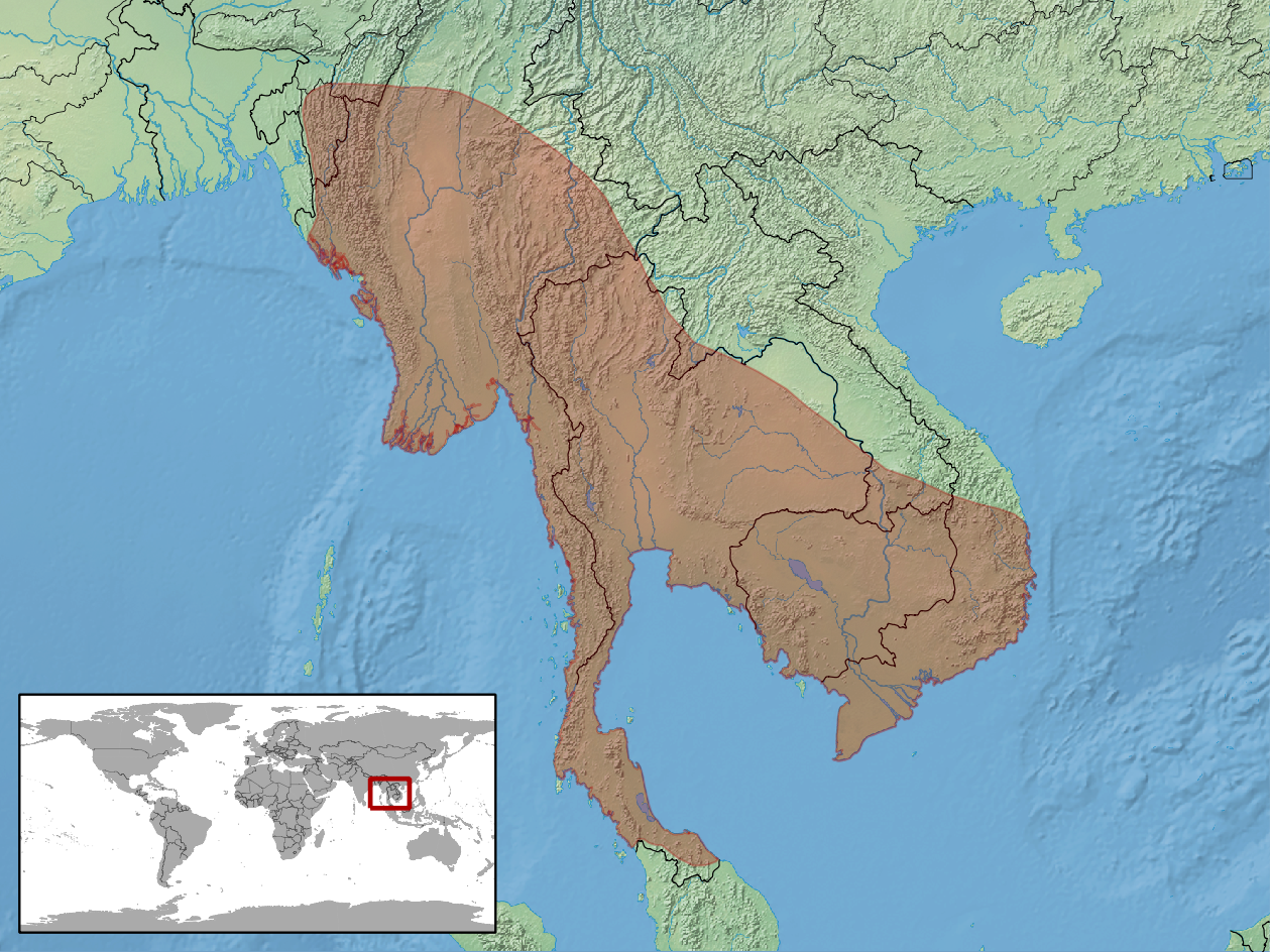 geographic distribution of Ptychozoon lionotum (Native: Cambodia; India (Mizoram); Myanmar; Thailand; Viet Nam)